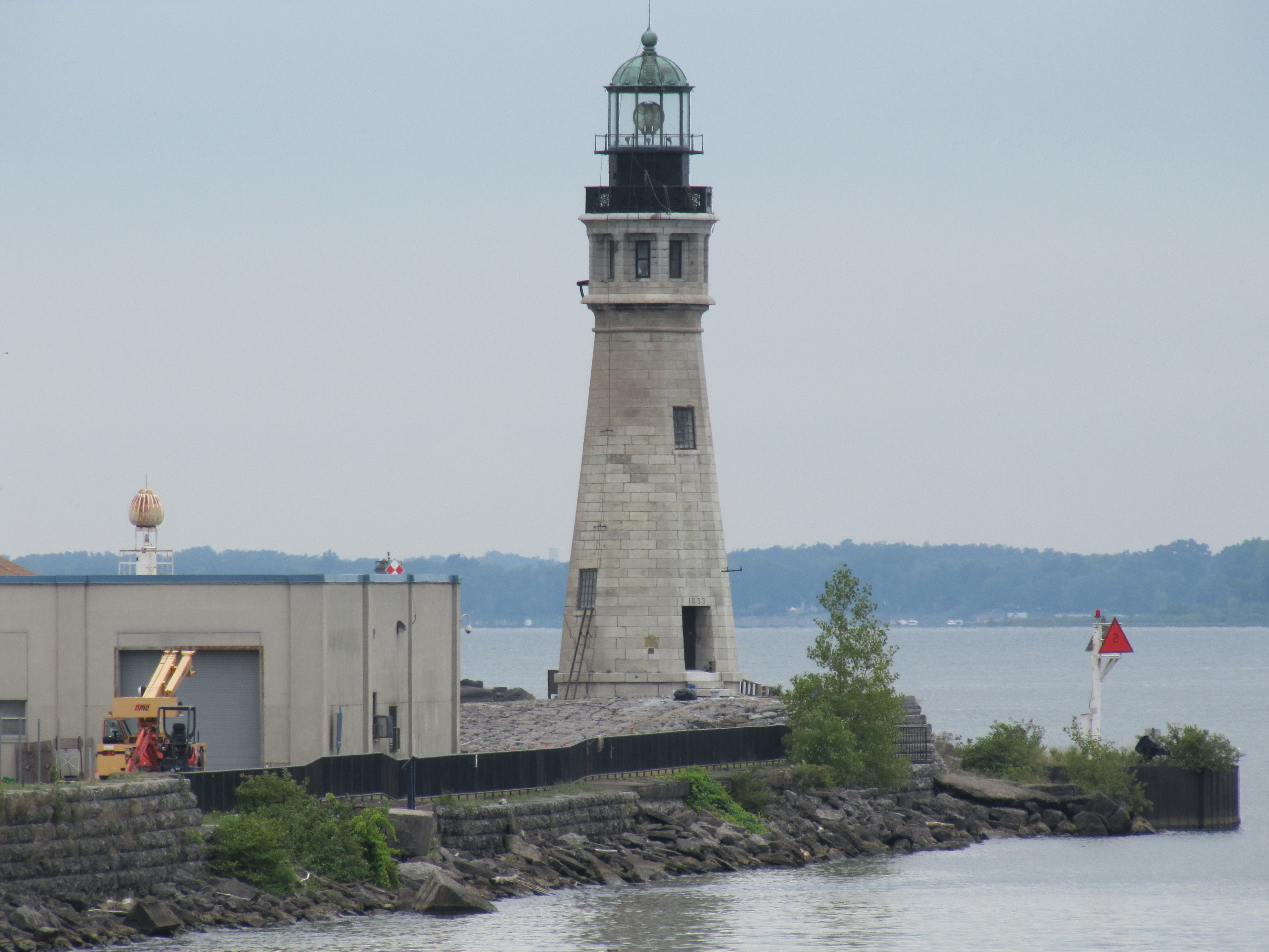 Buffalo and Erie Naval Park, New York, United States